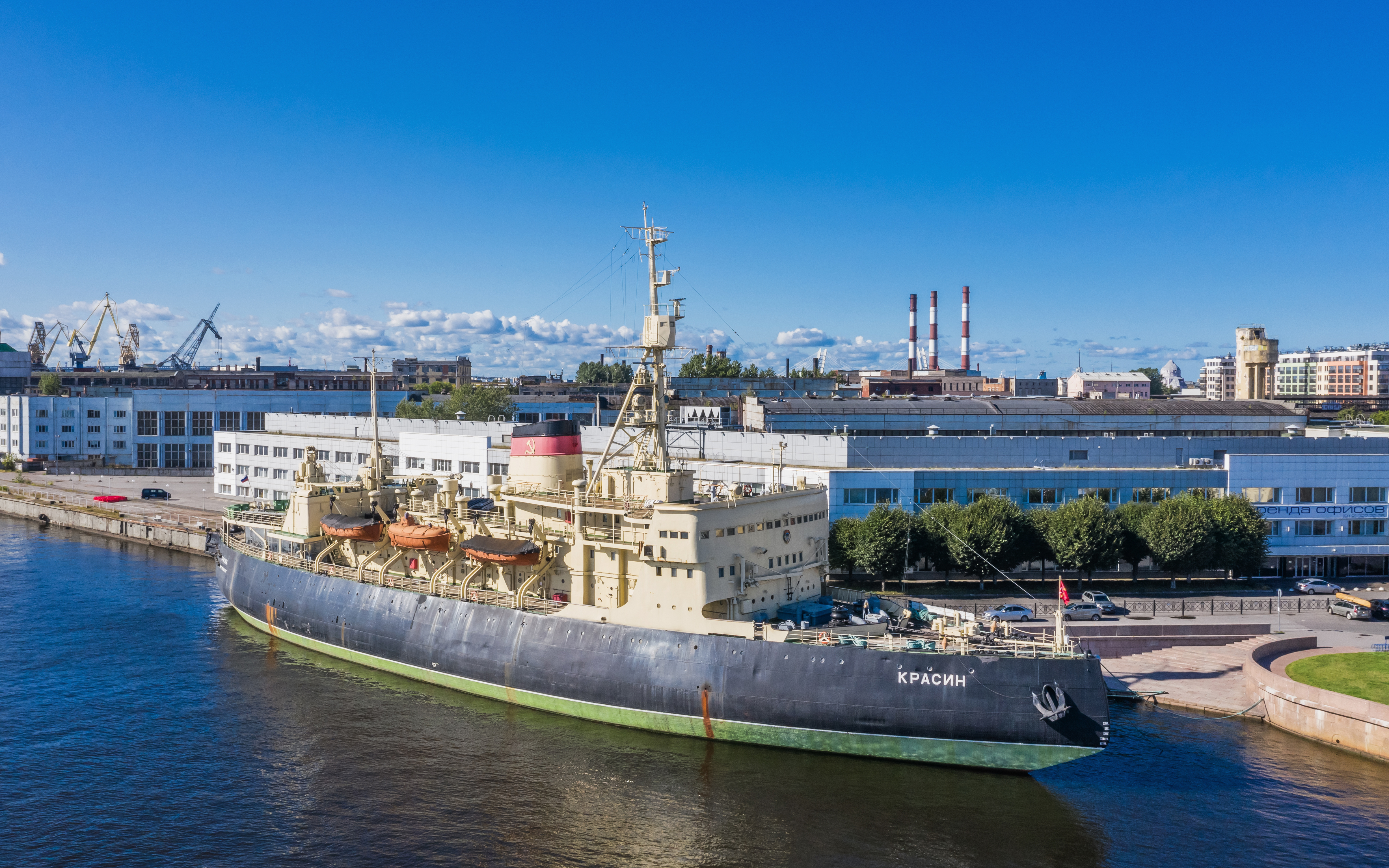 Krassin (1916 icebreaker) in Saint Petersburg, Russia: aerial photo